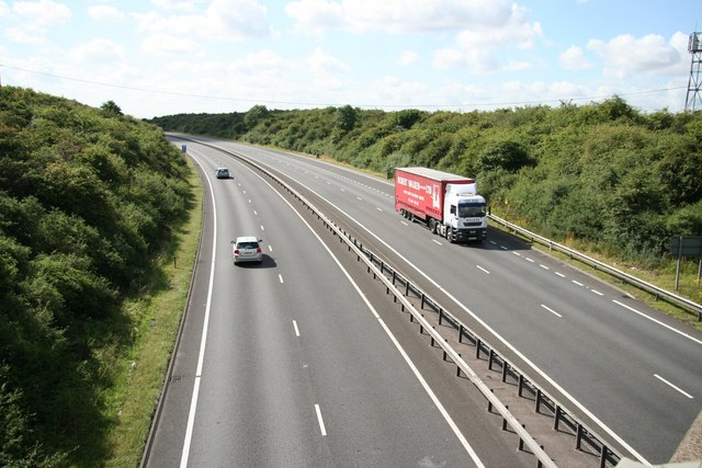 A1 traffic Looking south on the A1 from Costa Row bridge at Long Bennington